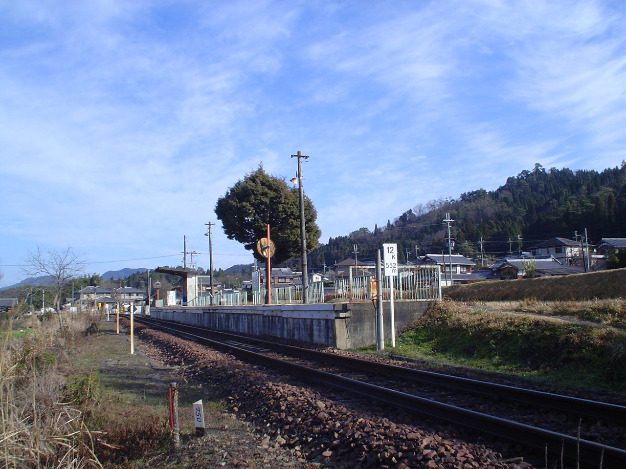 Chokusi Station in Siga pref, Japan